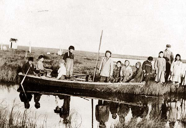 Central Alaskan Yup'ik at the Moravian Mission Station at the Kuskokwim River in 1900. Description given at the source: "(...) image of Scene at Moravian Mission Station on the Kuskokwim River. It was taken in 1900." (text from same source)